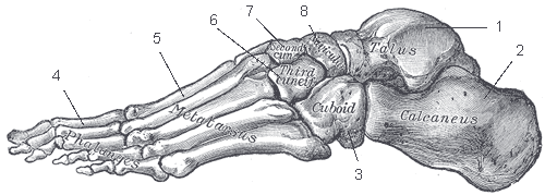 Foot bone lateral view. Add numbers on Gray schema